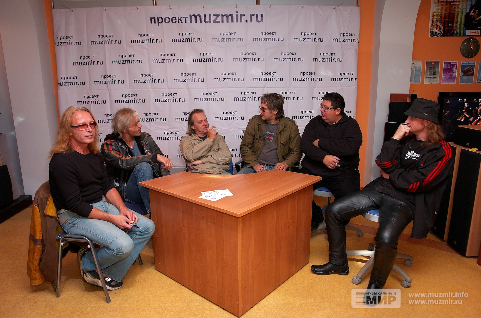 Russian rock band Alisa at Syktyvkar